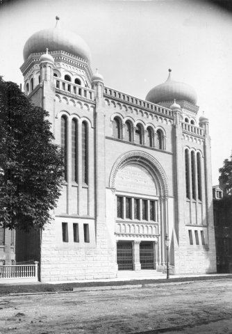 Holy Blossom Temple, 119 Bond Street, Toronto, Canada. Later became a Greek Orthodox Church/